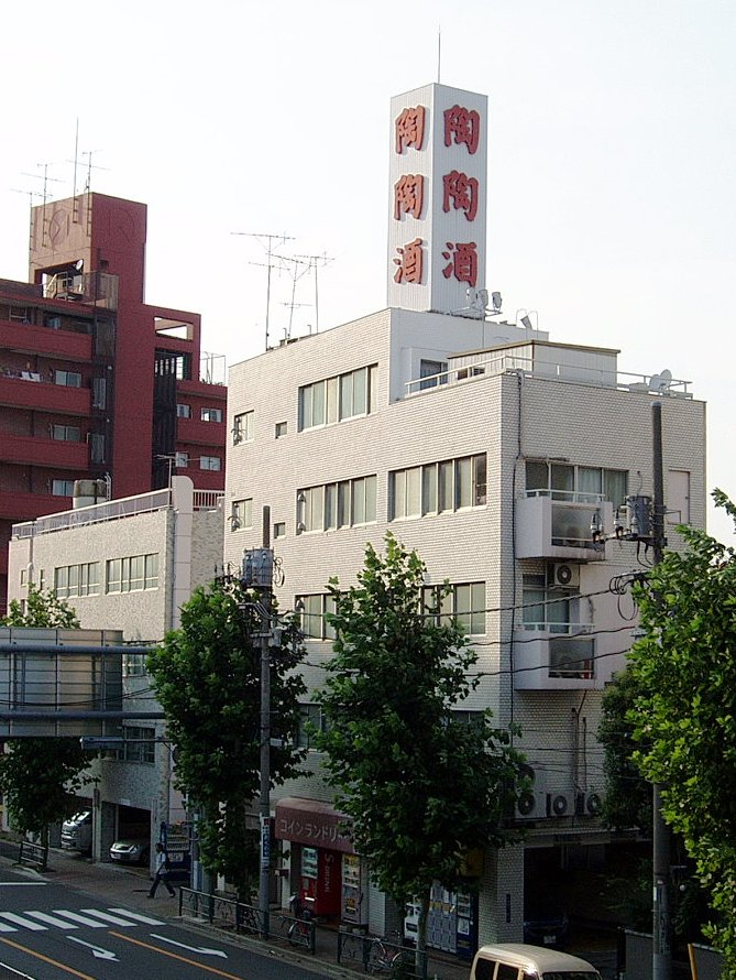 The former headquarters of Tohtoh-shu, a Japanese liquer vendor which filed for bankruptcy protection in 2003.Today SAKURA HOUSE Uguisudani A & B located in Negishi 2-chome, Taito-ku, Tokyo, Japan.